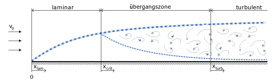 Transition of boundary layer at turbulant flow